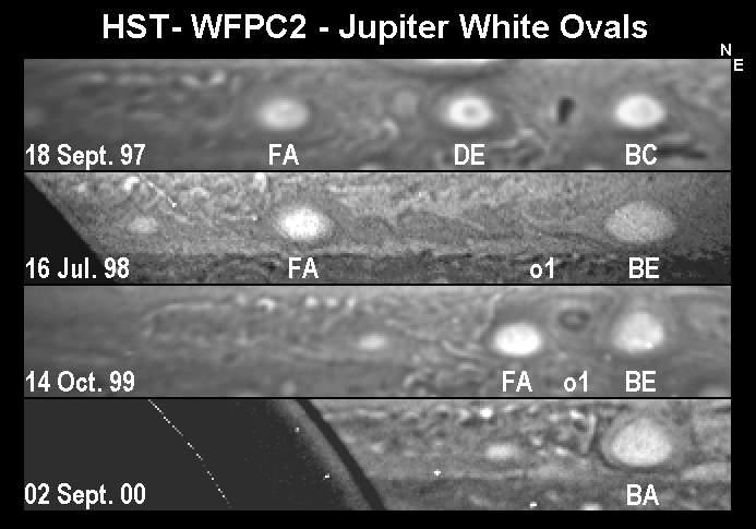 These four images of clouds in a portion of Jupiter's southern hemisphere show steps in the consolidation of three "white oval" storms into one over a three-year span of time. They were obtained on four dates, from Sept. 18, 1997, to Sept. 2, 2000, by NASA's Hubble Space Telescope. The widths of the white ovals range from about 8,000 kilometers to 12,000 kilometers (about 5,000 miles to 7,500 miles). North is up and east is to the right.